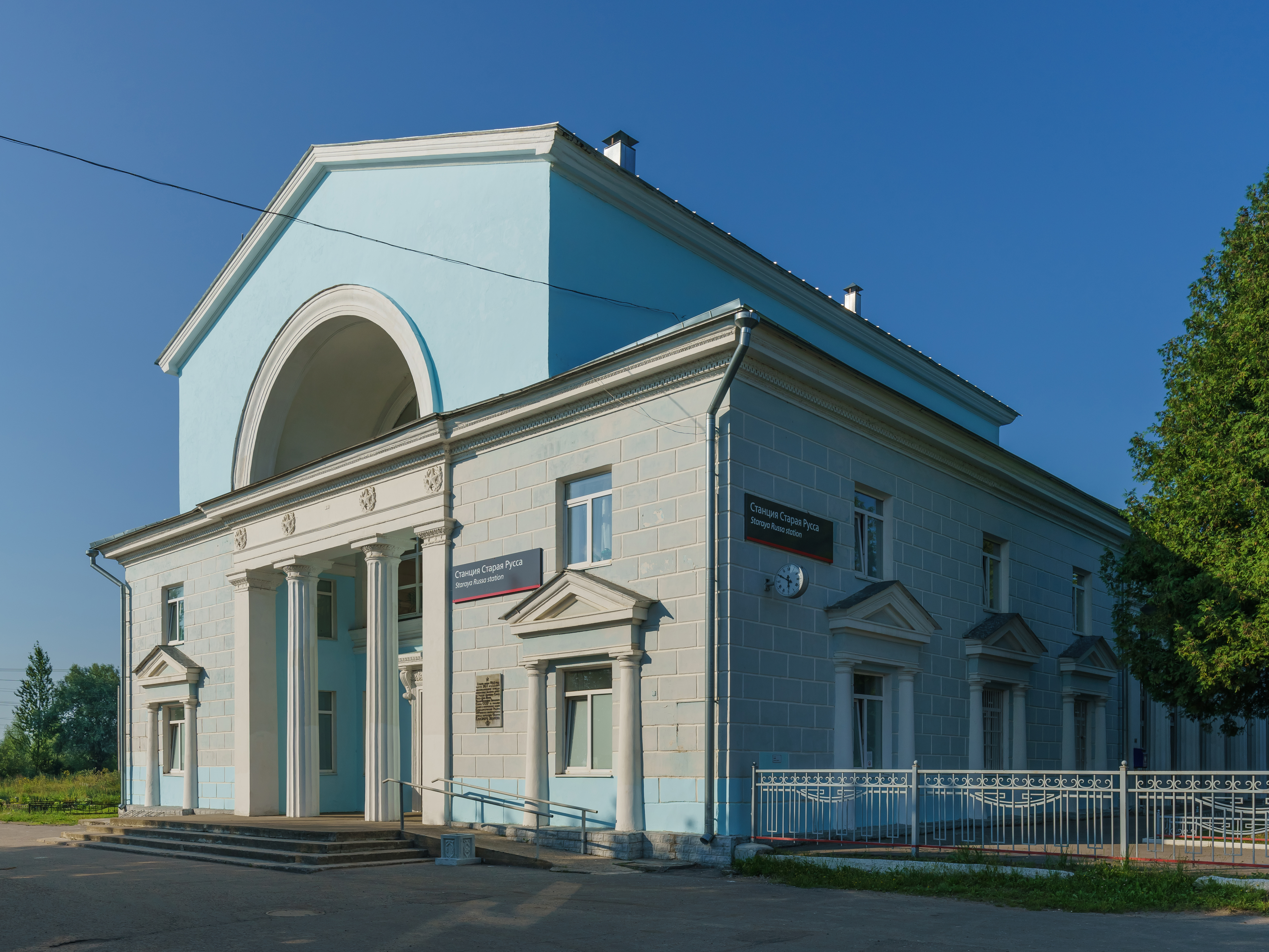 Railway station in Staraya Russa, Novgorod Oblast, Russia